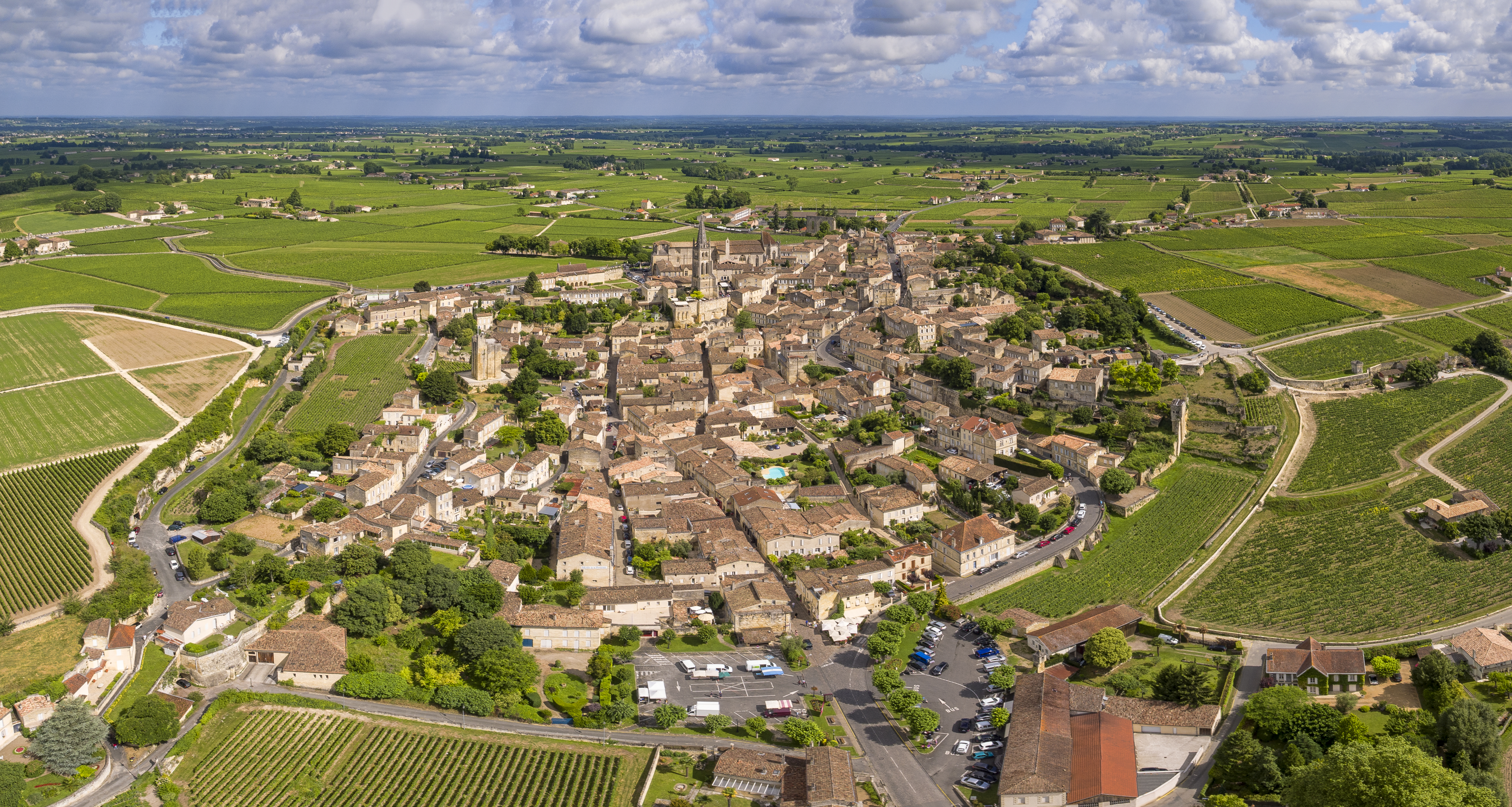 aerial panorama Saint-Émilion France 2016